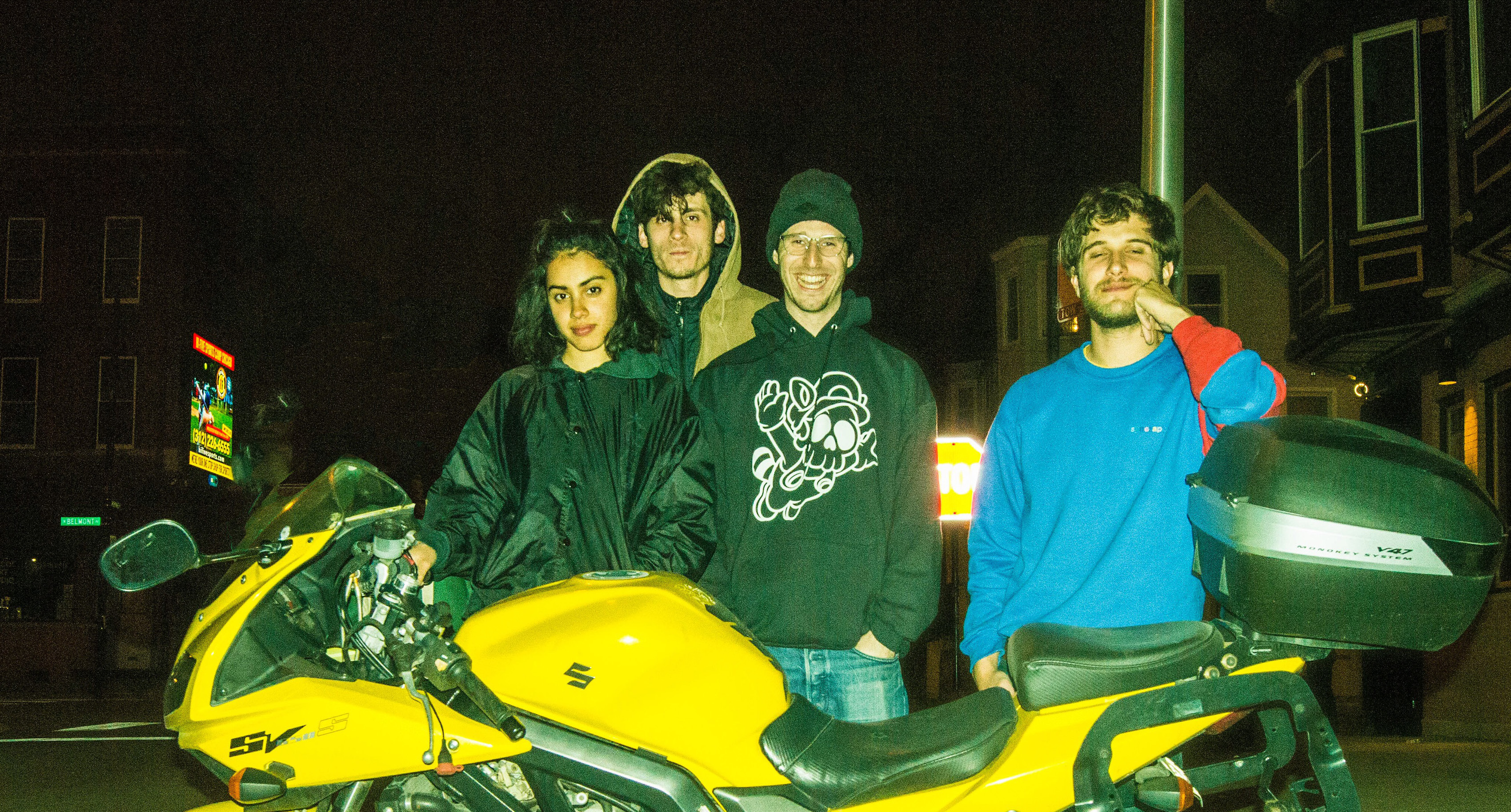 Photo by Kevin Allen